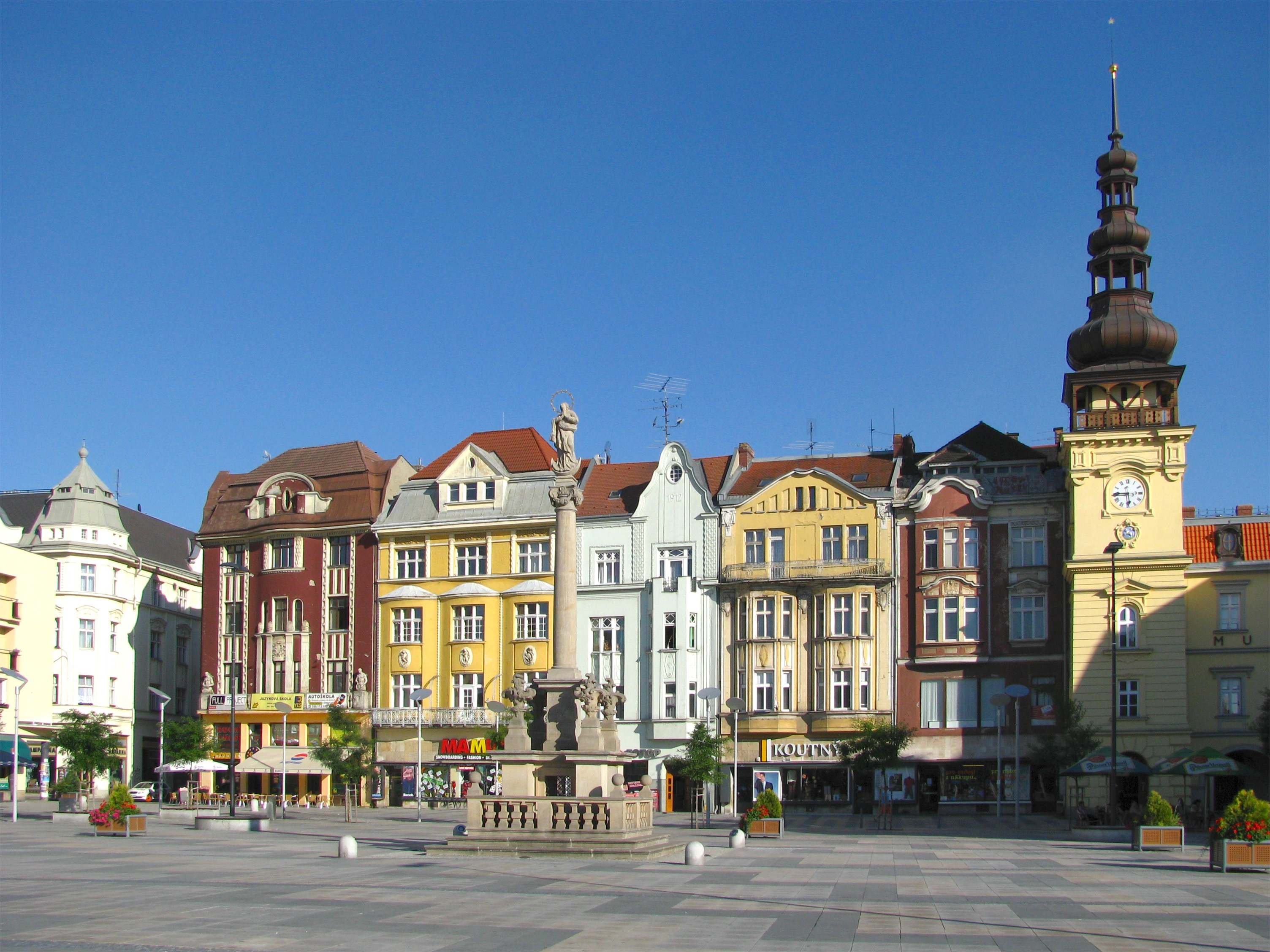 Masaryk Square in Ostrava.